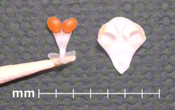 Extracted Phalaenopsis ochid's stipe with Pollinia and Rostellum and its anther cap side by side. Total mesures: ~7mm.